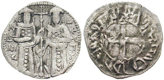 Andronicus II Palaeologus with Michael IX Palaeologus. 1282-1328. Billon Tornese (0.70 gm). Constantinople mint. Struck 1295-1320. ANΔ•NIK ΔECΠT, Andronicus and Michael standing facing, holding long cross +KOMNHNOC O ΠAΛAIOΛOΓOC, plain cross. Cf. DOC V pg.148, 8; cf. Bendall 142; cf. SB 2409 (all a variety of the reverse type).